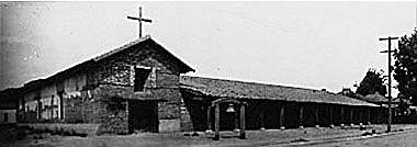 Spanish era Mission San Francisco Solano - Sonoma County, northern California. The mission is located in the present-day town of Sonoma, at 114 East Spain Street. circa 1910 - by W.A.Haines. img URL